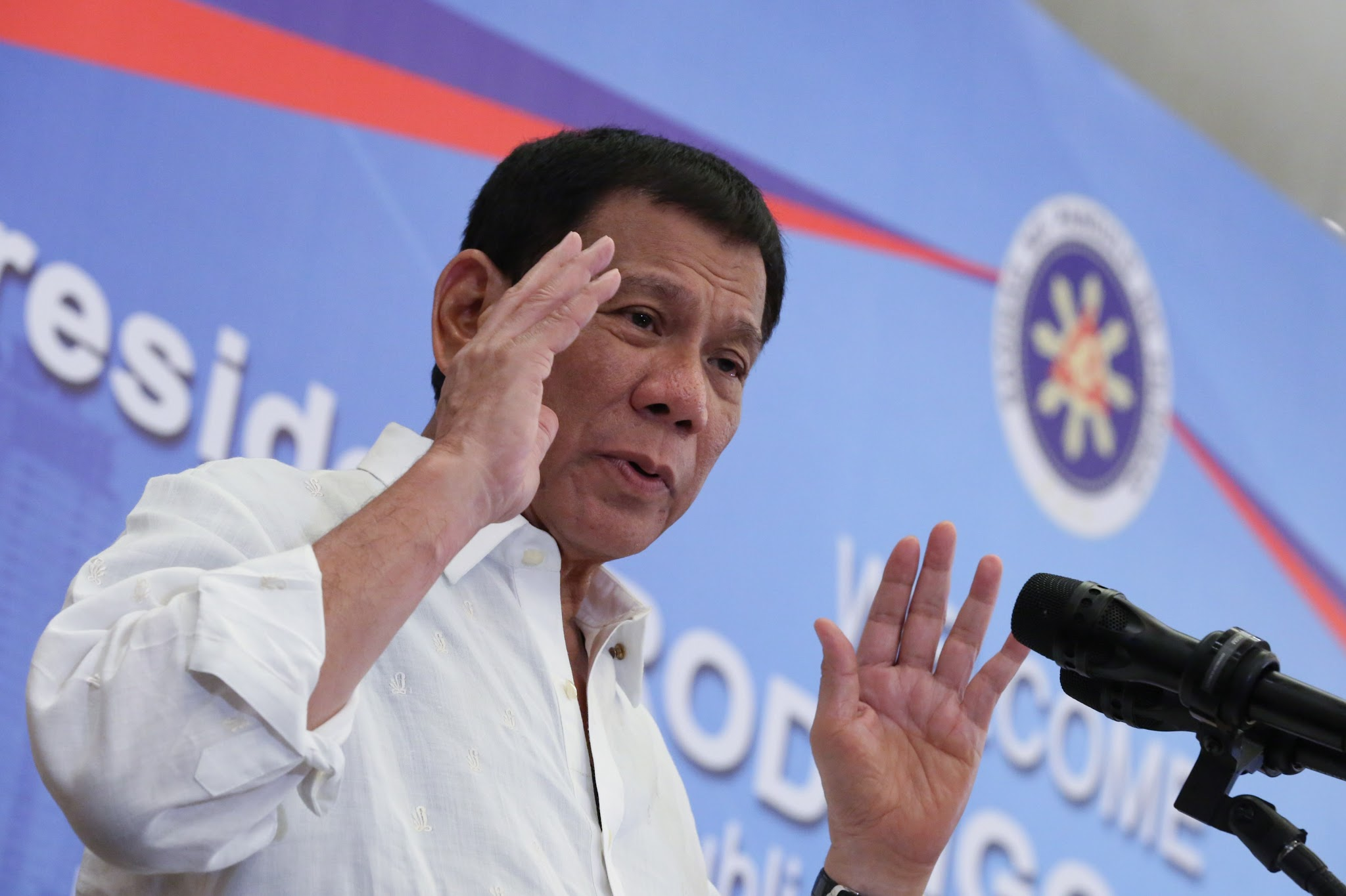 President Rodrigo Duterte delivers his message to the Filipino community in Vietnam during a meeting on September 28. KING RODRIGUEZ/ PRESIDENTIAL PHOTO